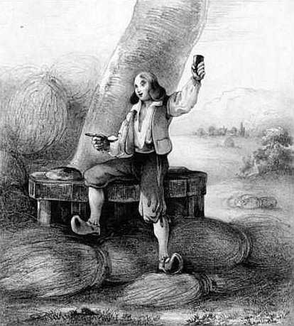 Adolphe Nourrit (1802-1839) as Guillaume in Auber's Le Philtre.